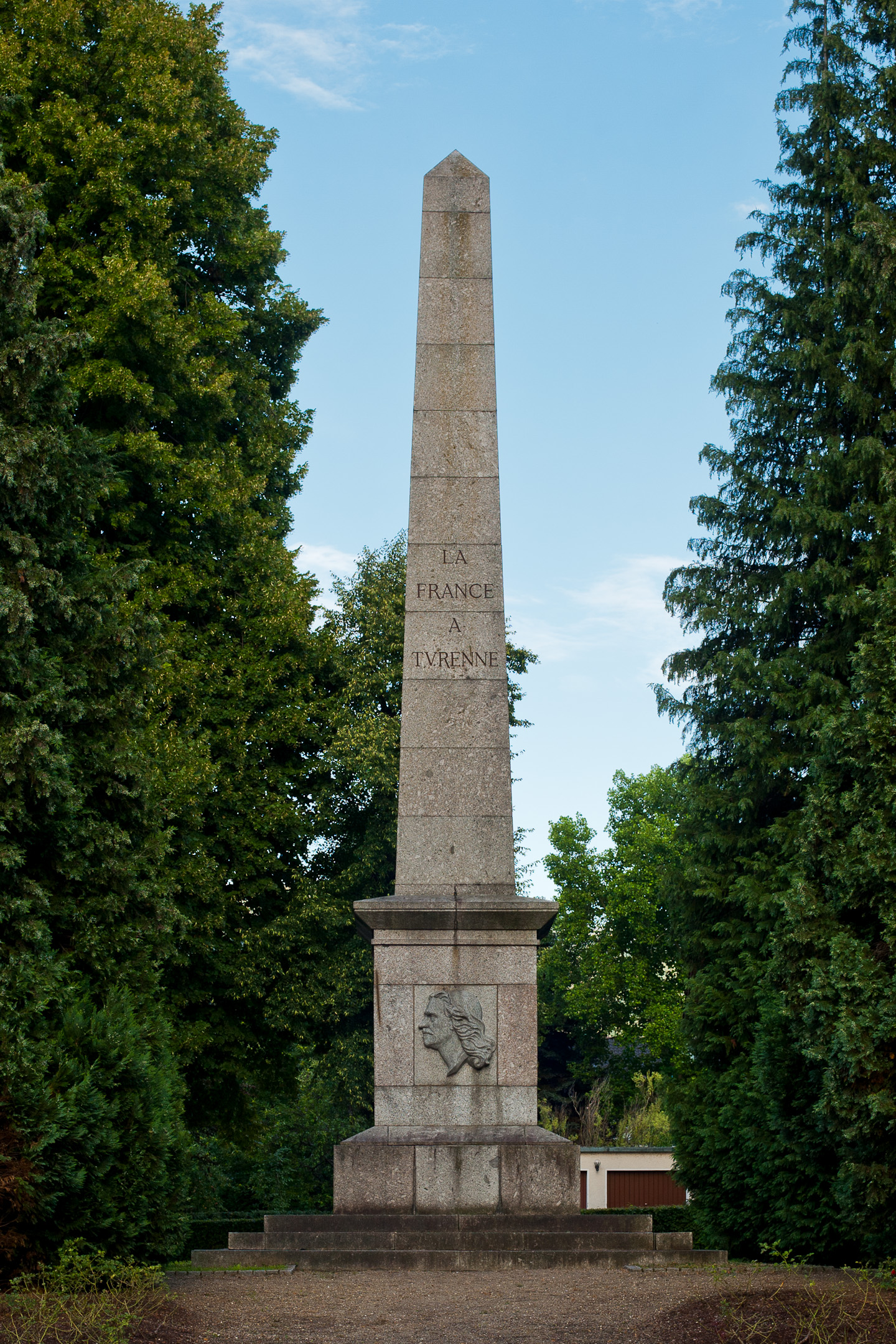 Turenne memorial in Sasbach